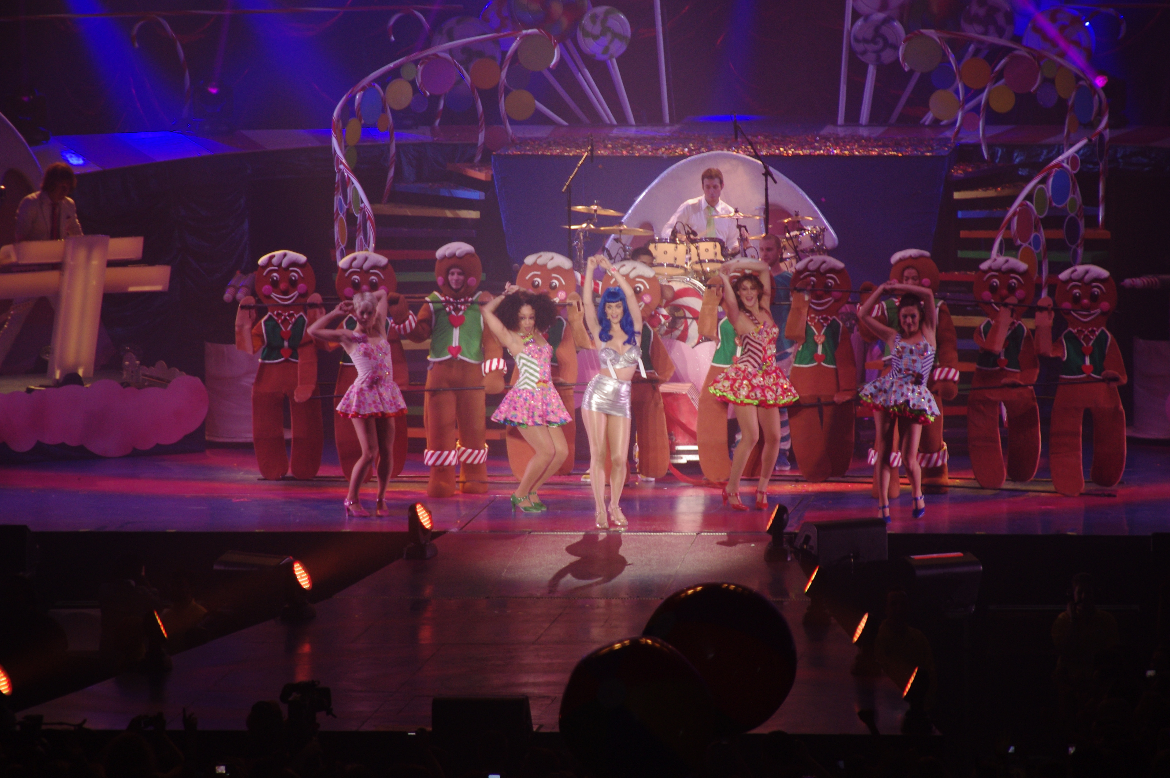 Katy Perry performs "California Gurls" at the Capital FM Arena in Nottingham.